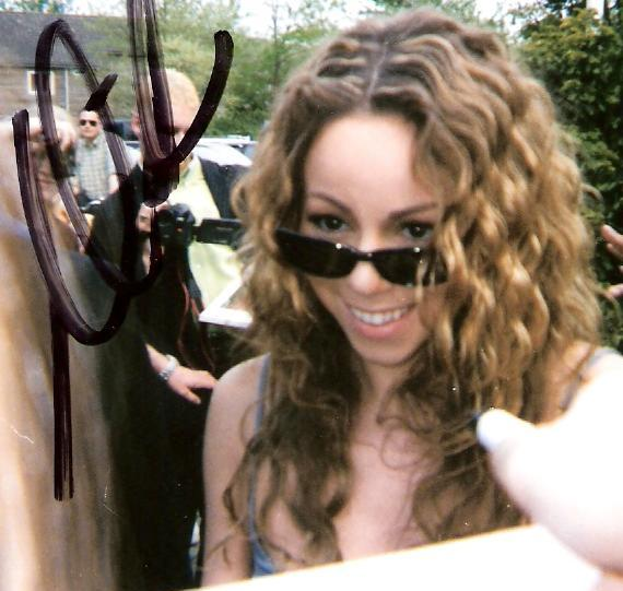 Mariah Carey in Holland, April 1 1998, signature by Mariah Carey the following year, also in Holland